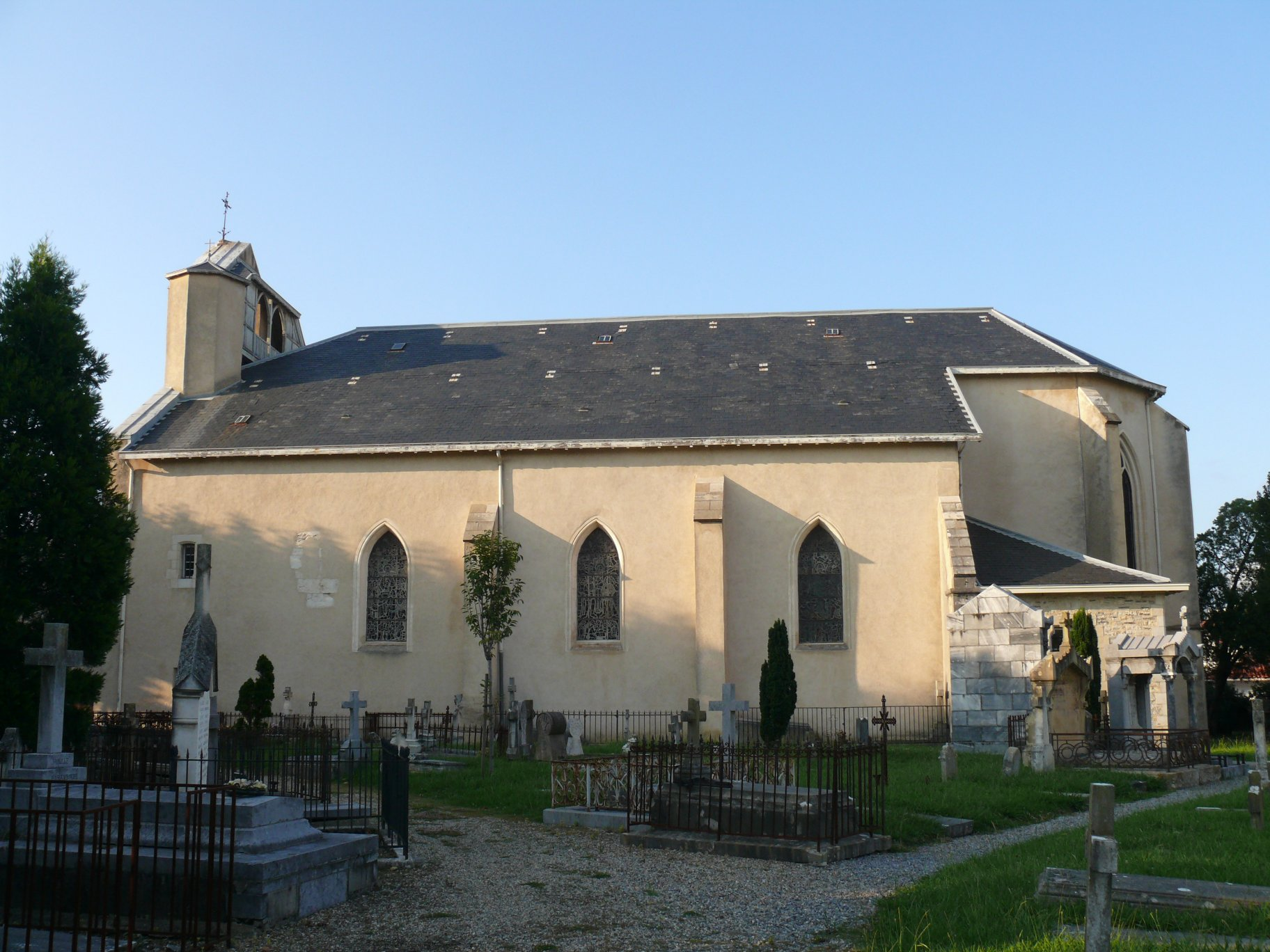 Saint-Martin's church of Biarritz (Pyrénées-Atlantiques, Aquitaine, France).